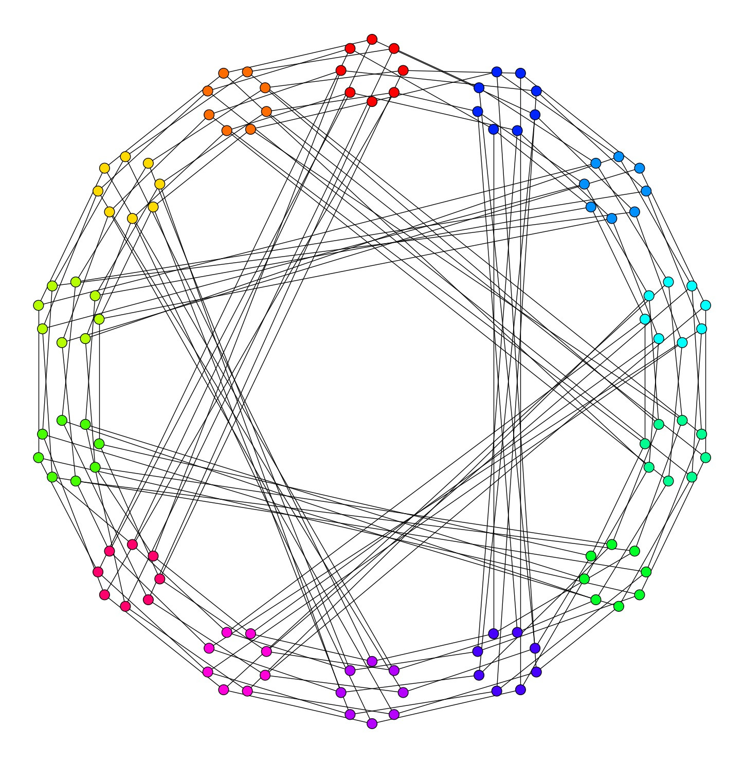 A drawing of the Ljubljana graph with a Heawood graph layout